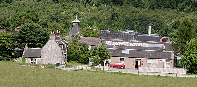 Balvenie Distillery From the field below Burnhead the name of the distillery can be seen, but from road level it is concealed behind the low building in front.